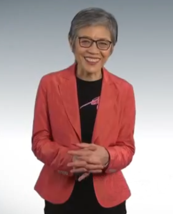 Virginia Man-Yee Lee, a Chinese-born American neuropathologist who specializes in the research of Alzheimer's disease.